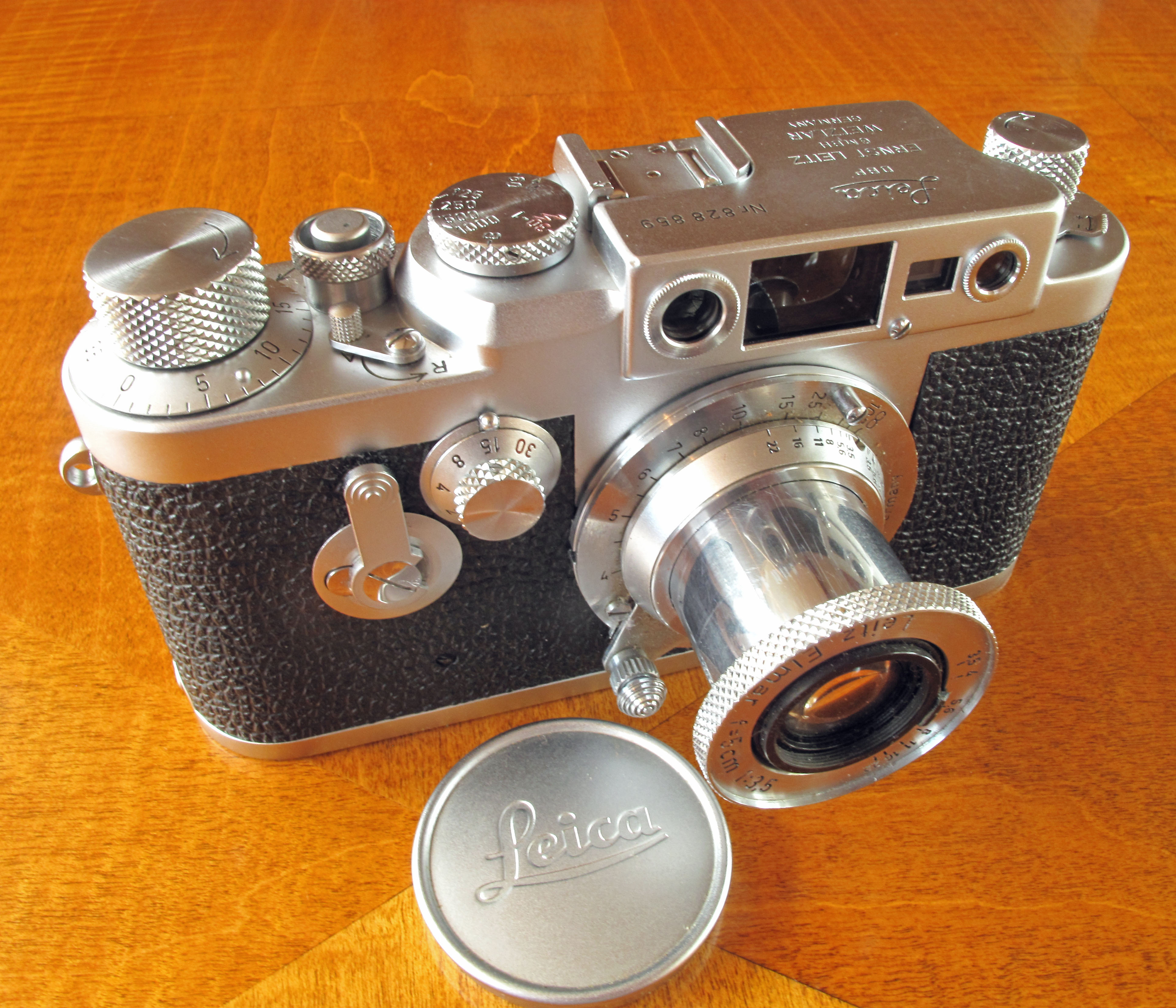 The last of the Leica screw lens Rangefinders, this IIIg started life in 1956. It has just been serviced and the rangefinder optics are gin clear.